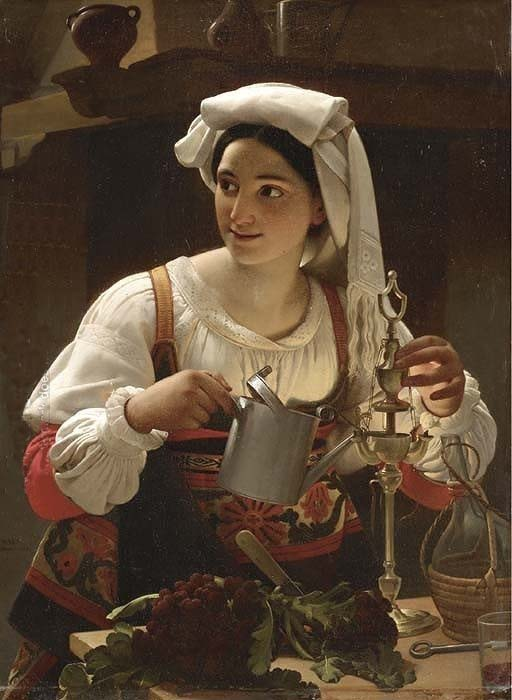 A young maiden filling an oil lamp